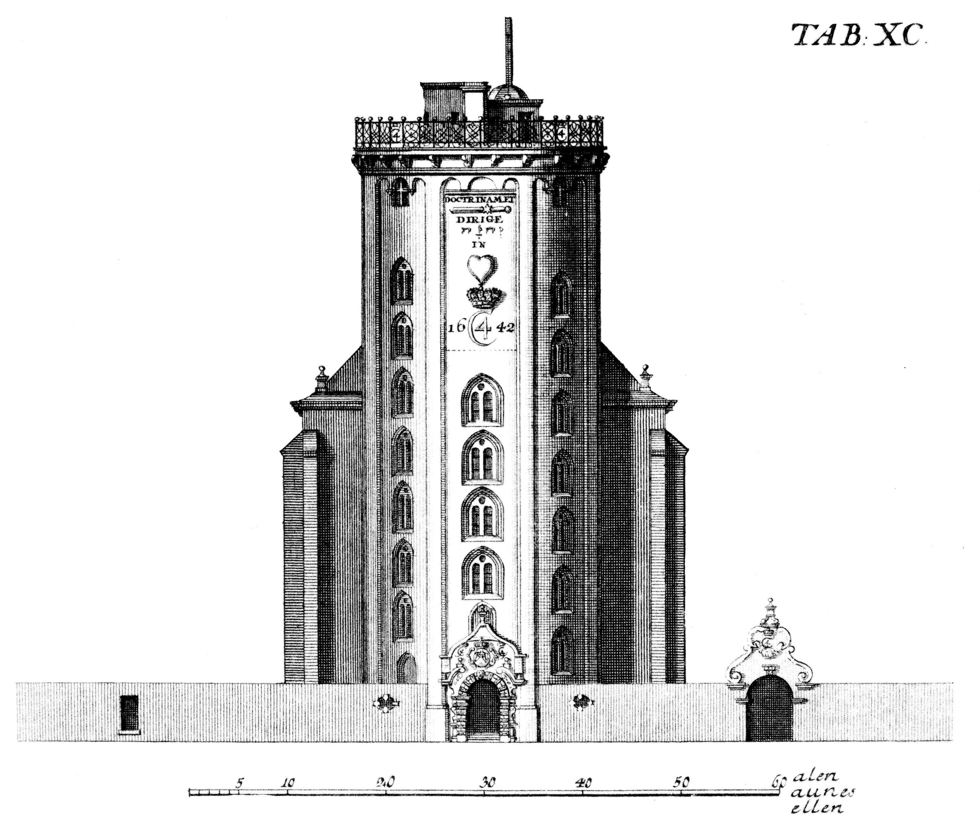 From Hafnia Hodierna by Laurids de Thurah, 1748. Drawings of buildings in Copenhagen. Tab.XC. Rundetårn.